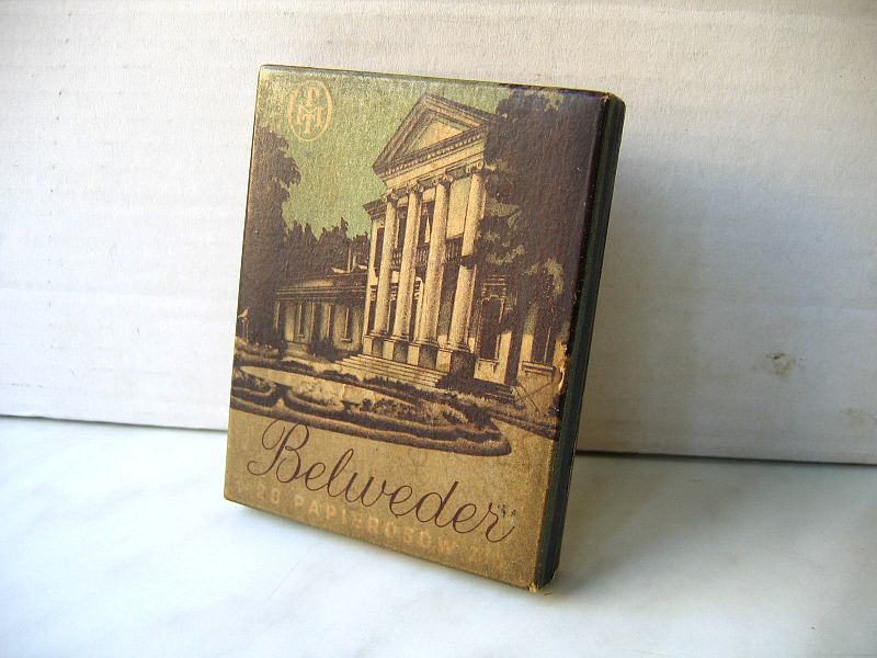 Belweder - polish cigarettes